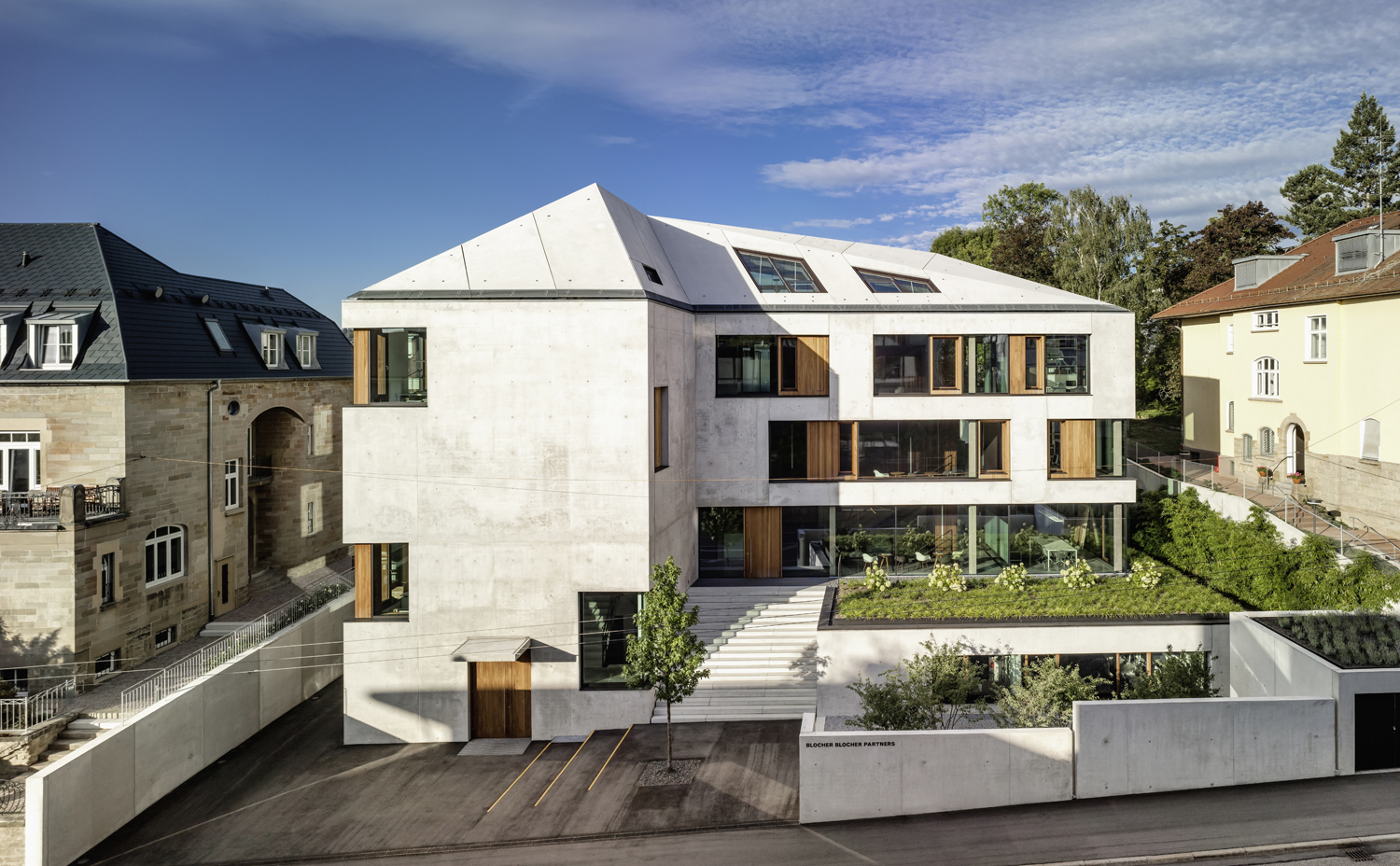 Office Building, Herdweg 19, Stuttgart; Architecture and Interior Design by Blocher Blocher Partners